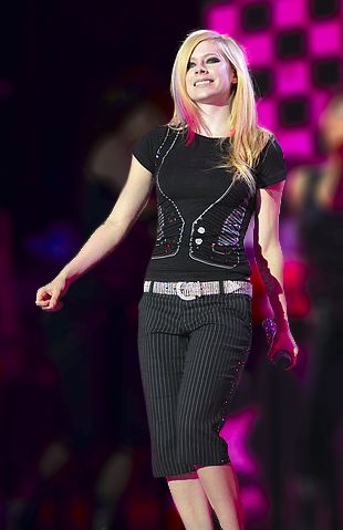 Avril Lavigne performing at the Heineken Music Hall, in Amsterdam, Netherlands.